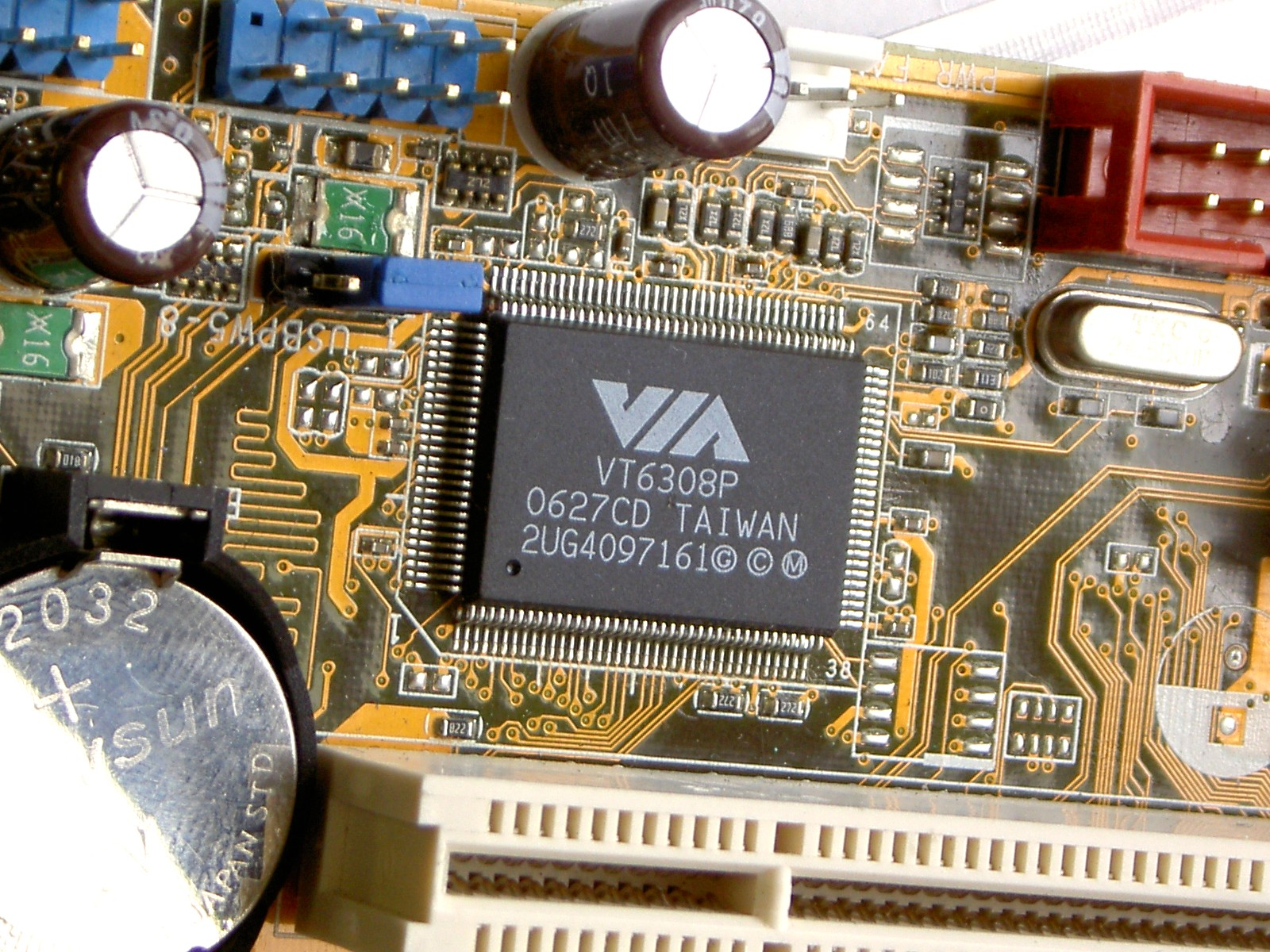 VIA Fire IIM VT6308P 1394 Host Controller